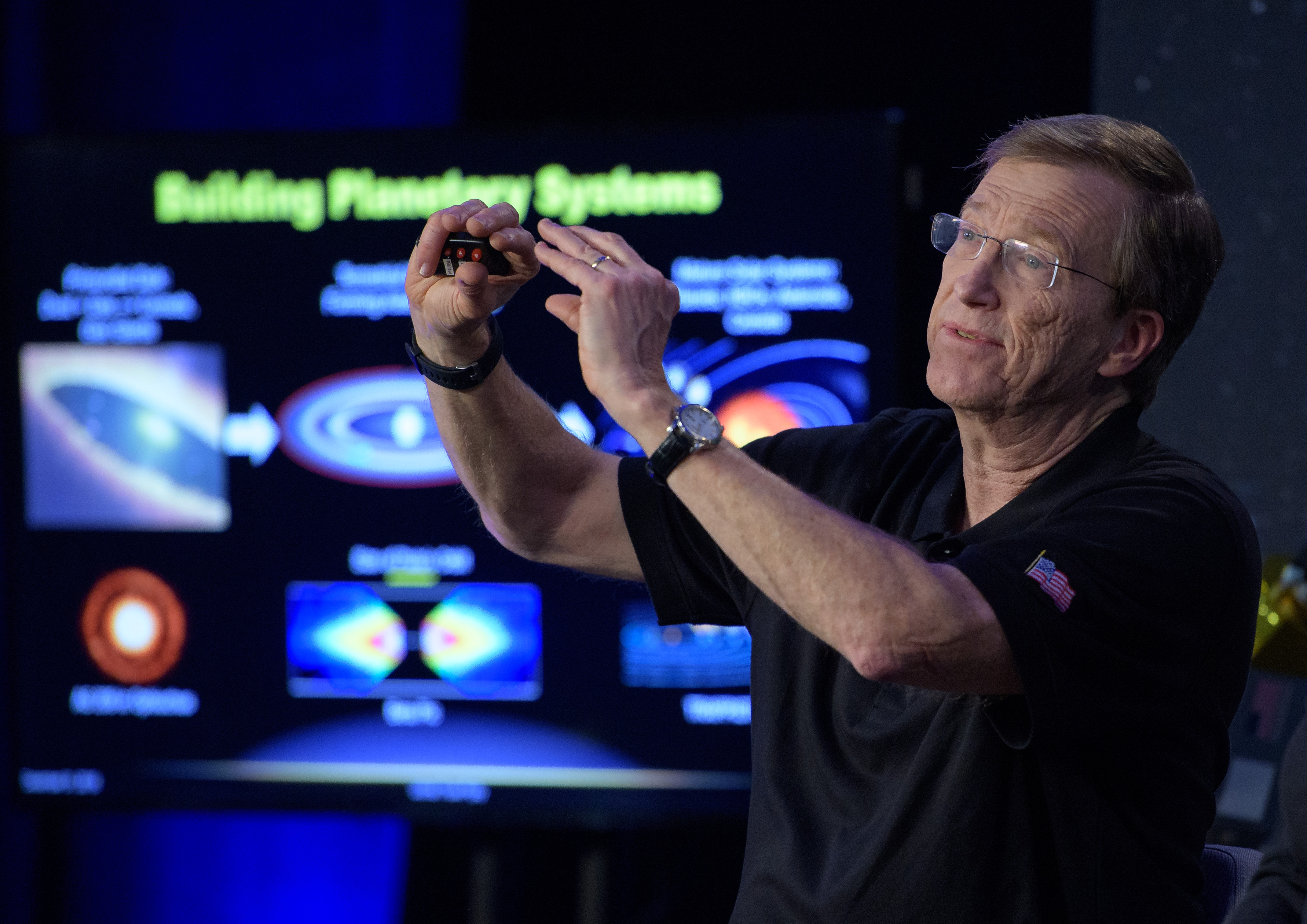 New Horizons project scientist Hal Weaver of the Johns Hopkins University Applied Physics Laboratory discusses what they hope to learn from the flyby of Ultima Thule, Monday, Dec. 31, 2018 at Johns Hopkins University Applied Physics Laboratory (APL) in Laurel, Maryland.